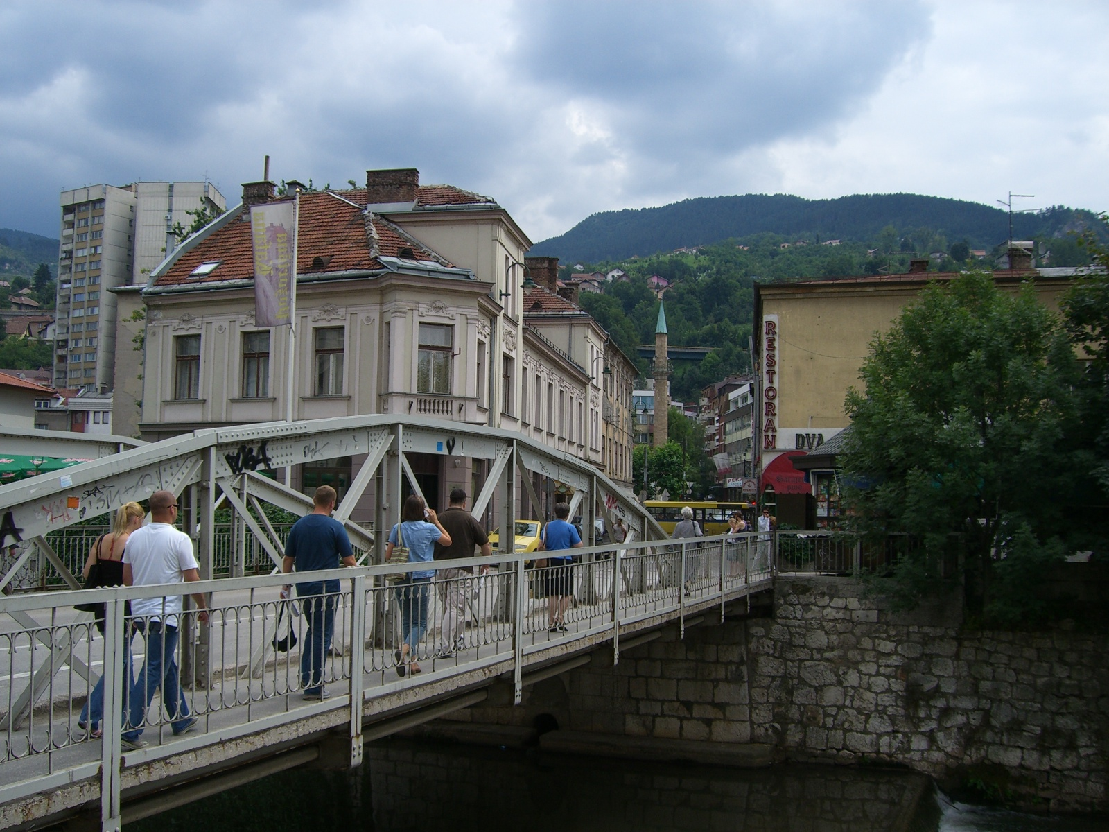 After crossing a wild mountain area between Foca and Sarajevo, a short stop in what must feel like a metropolis for predominantly rural Bosnians. This is a view towards the mountain range south of Sarajevo, from which Serb shells and bullets punished those who dared or had not choice but to remain in the city.